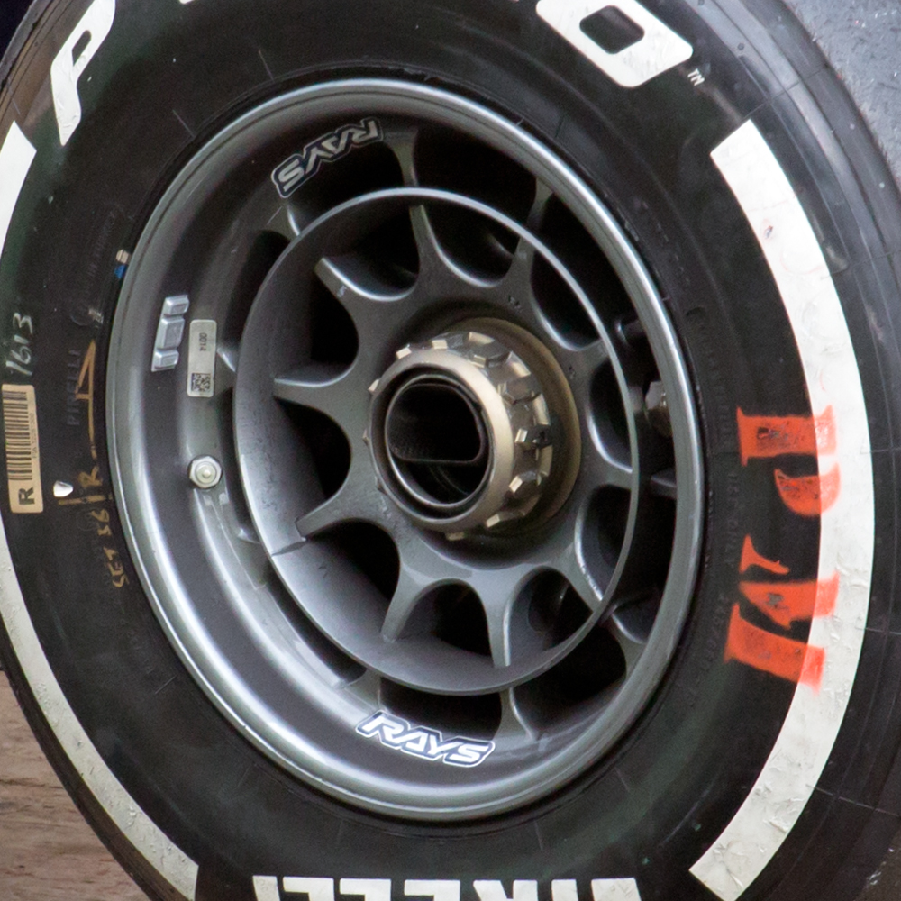 Formula One 2013 Rd.2 Malaysian GP: Williams FW35 front wheel